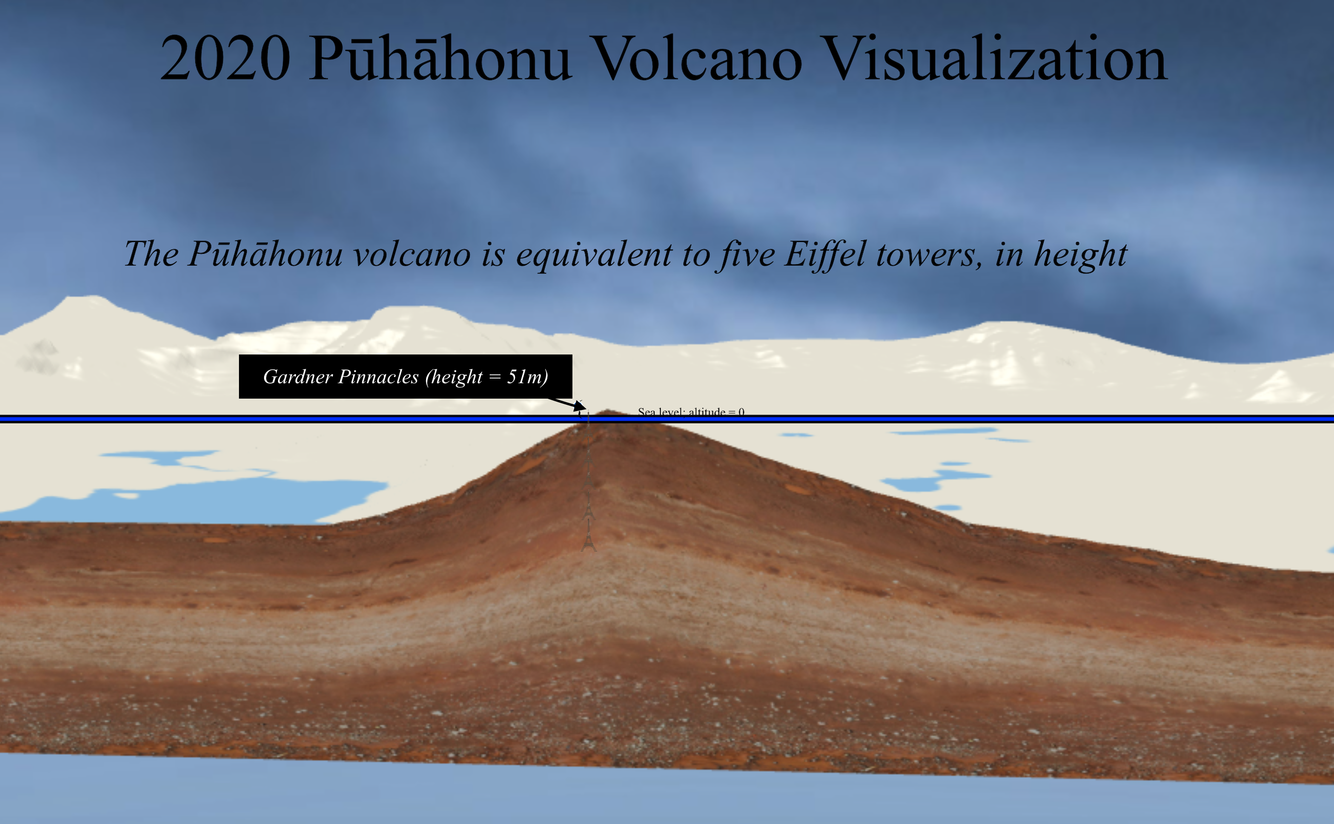 height of puhahonu volcano in relation to eiffel towers